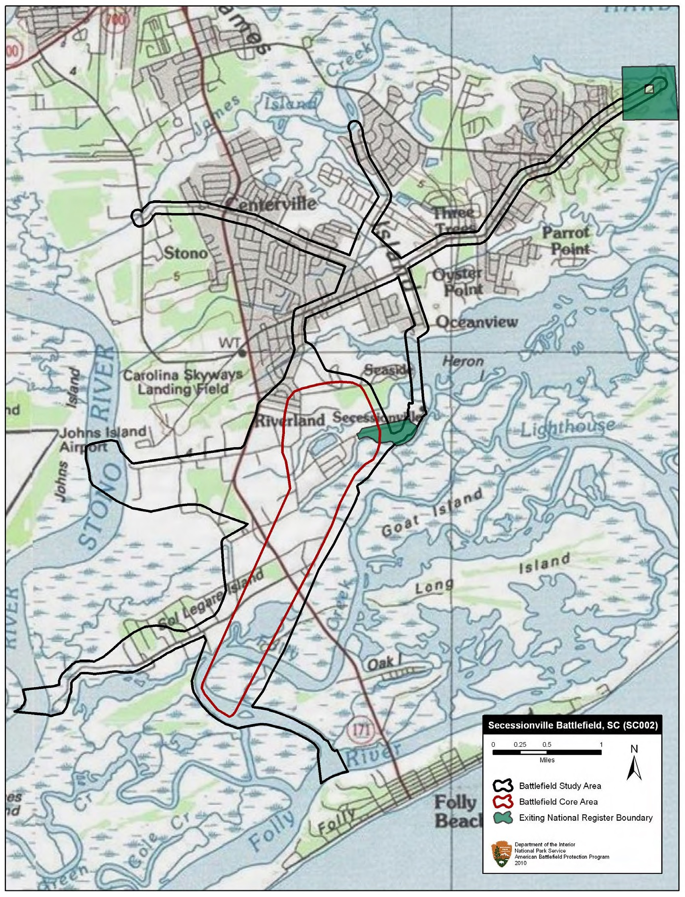 Map of battlefield core and study areas. The ABPP significantly revised the 1993 Study Area and included the routes taken by Confederate reinforcements marching from Charleston and Fort Johnson to help repulse the Federal assault on Tower Battery/Fort Lamar. The width of existing Federal approaches was reduced to highlight the roads used by US troops moving through the otherwise impassible, swampy terrain of James Island. Also included is the approach route of US naval forces travelling up Folly River Creek. The expanded Core Area includes the US naval bombardment from Folly River Creek and the Confederate counter attack north of Fort Lamar.